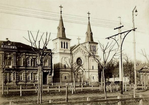 Фото начала 20 века.